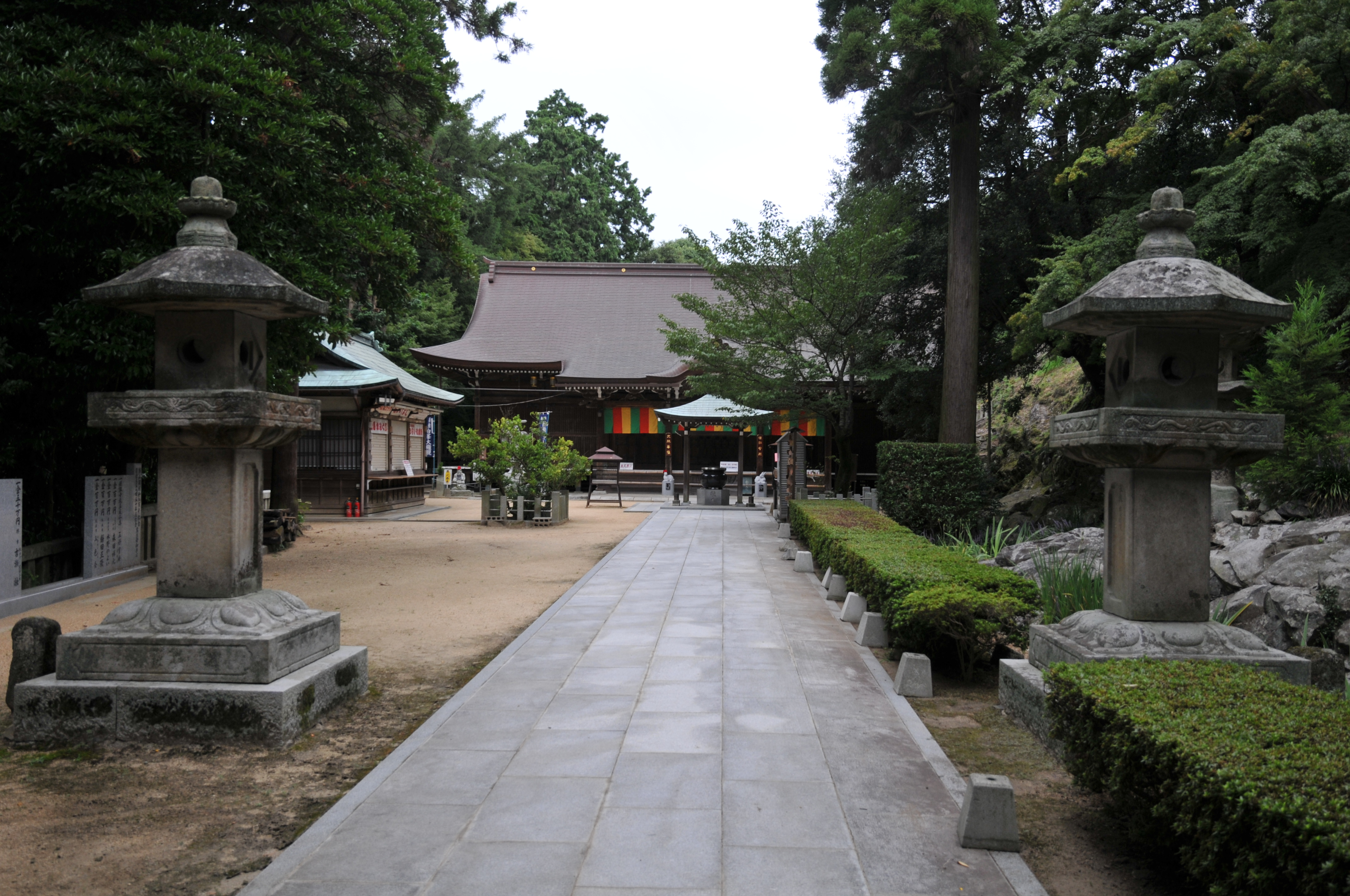 Tonshōjiden temple, Shiromine-ji